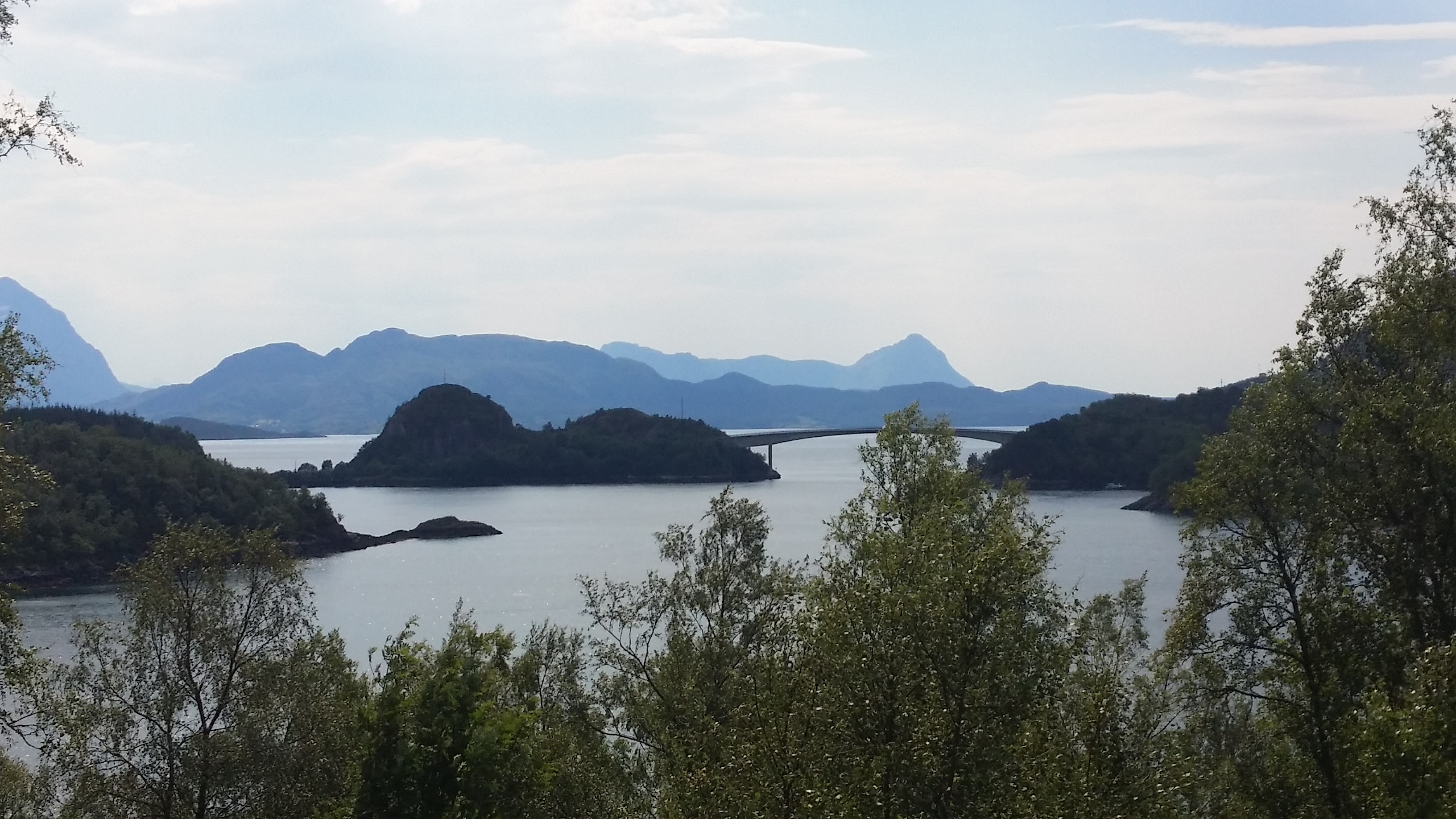 Towards Brattholmen island and Brattsund bridge in Meløy, Norway